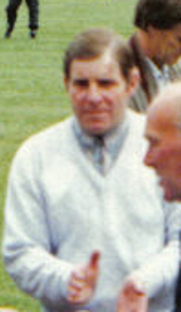 Photograph of footballer Doug Hillard. Cropped from larger photo. Description of original: Rovers stars of the 1950's gather at Twerton Park on August 13th 1988 for Jackie Pitt's testimonial match, Bristol Rovers taking on FA cup holders Wimbledon. Rovers legend Jackie was one of the finest wing halves to wear the blue and white quarters. He played for Rovers between 1946 and 1958 and after retiring from playing became the club's groundsman for many years at both Eastville and Twerton Park. He sadly died in August 2004. This photo was taken before the game, with all time Rovers top goalscorer Geoff Bradford getting his hands on the FA cup. You can also see Doug Hillard and Alfie Biggs amongst others. The game itself ended in a 1-1 draw with both goals coming in the first half, Peter Cawley scored for Wimbledon, Devon White equalised for Rovers.